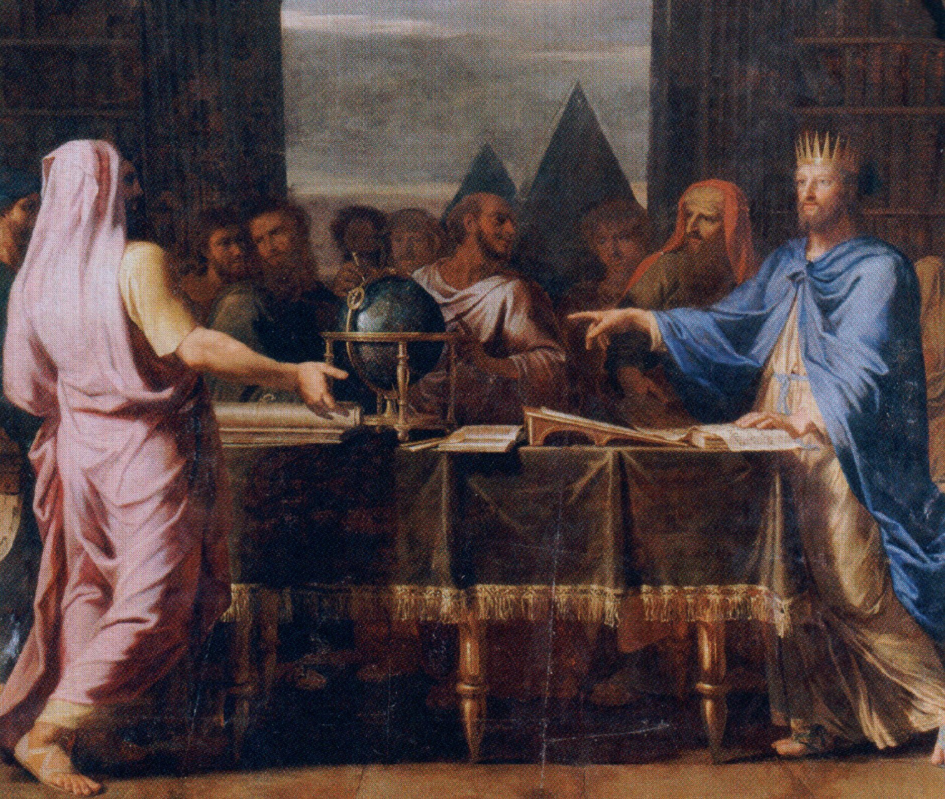 Ptolemy II Philadelphus talking with some of the 72 Jewish savants who translated the Bible for the great library of Alexandria.